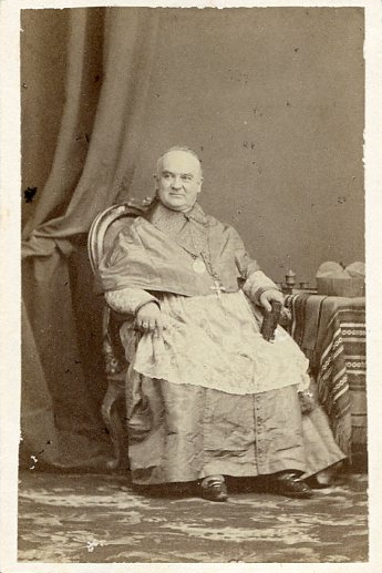 Fratelli D'Alessandri: Niccola cardinal Clarelli Parracciani (1799-1872).